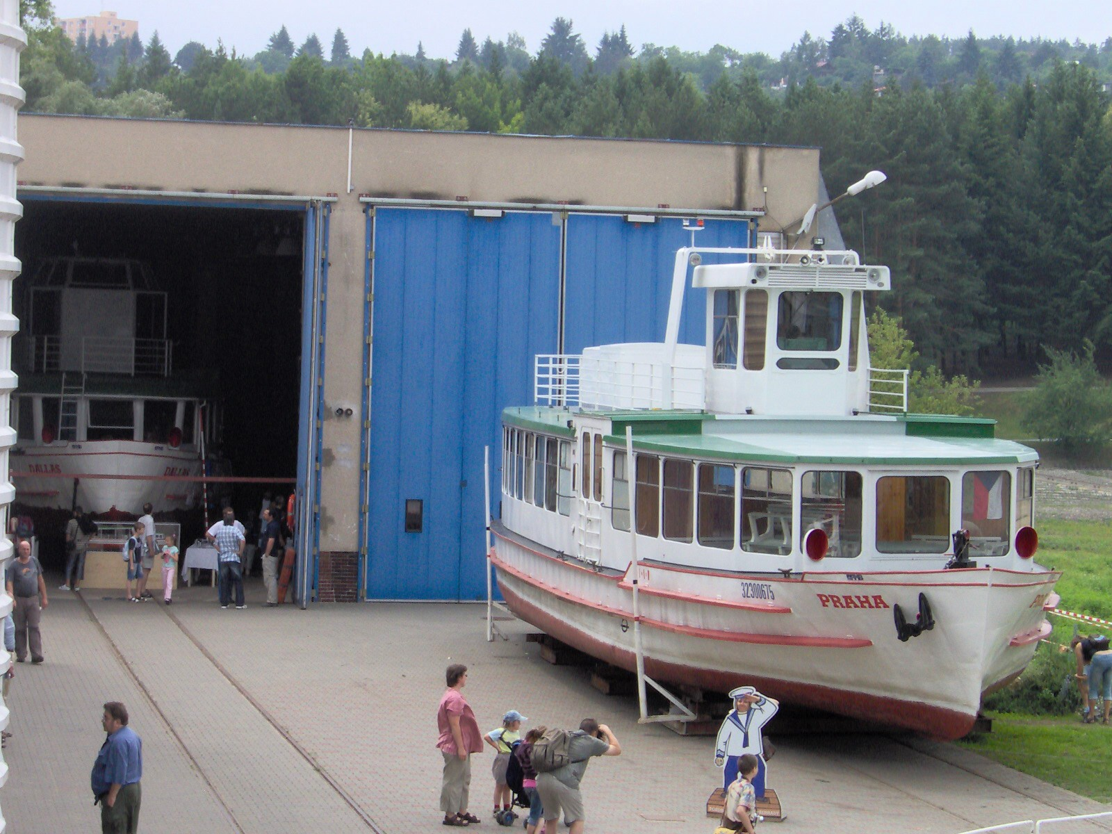 Praha ship, open day in the shipyard of DPmB, Brno, Czech Republic